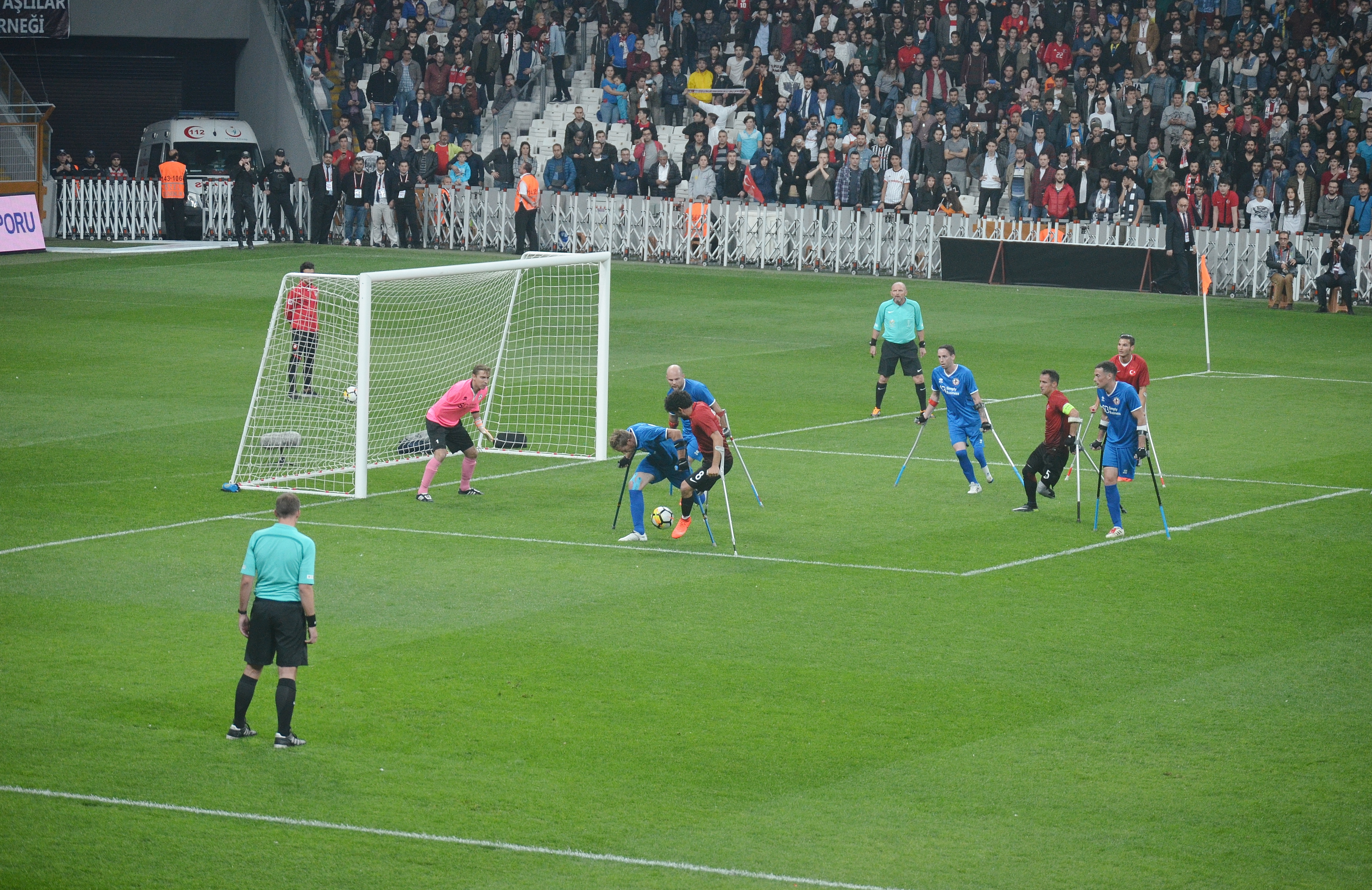 2017 European Amputee Football Championship final match Turkey vs England at Vodafone Park in Istanbul, Turkey